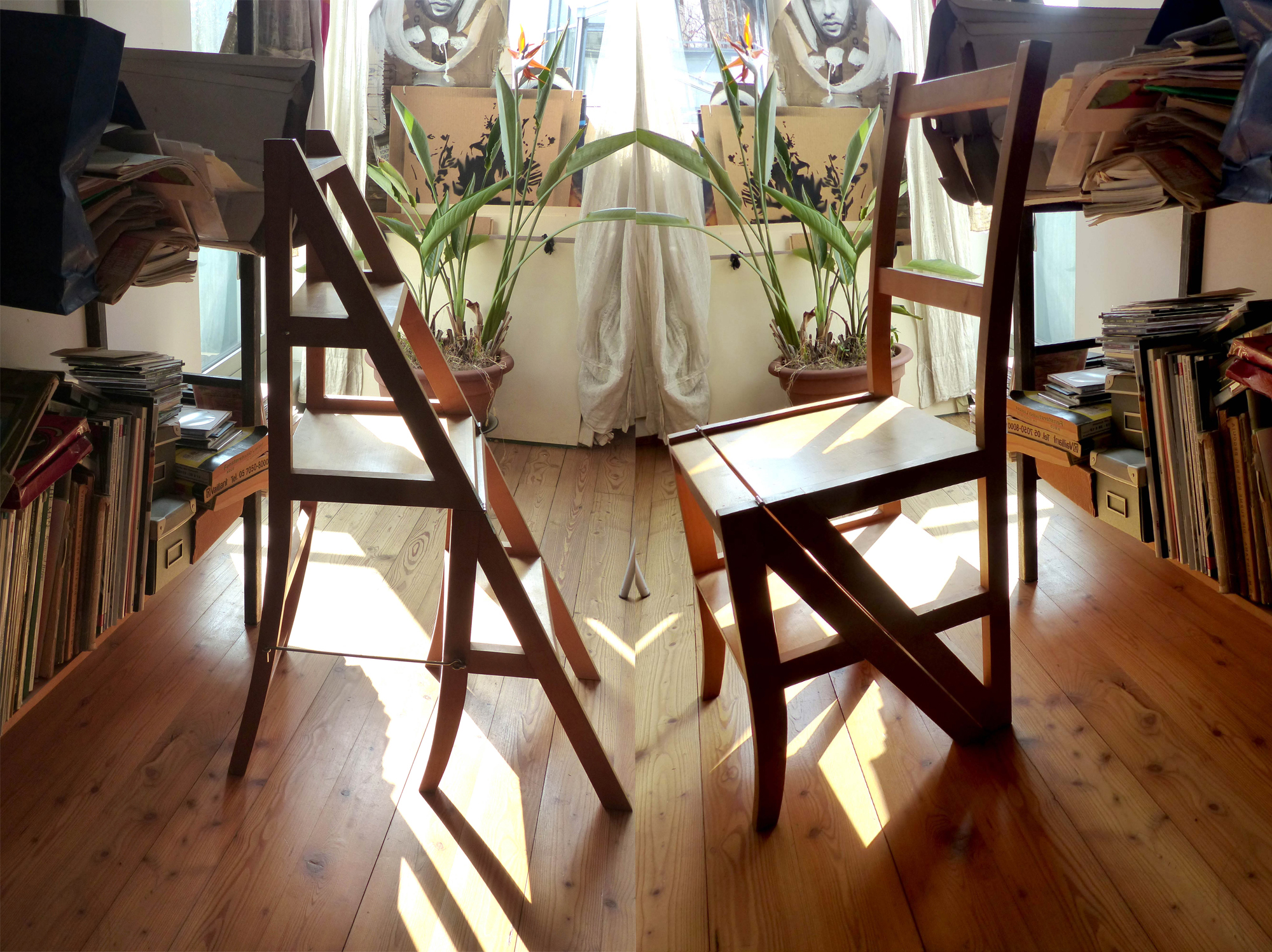 'Ottakringer' Leiterstuhl von Katarina Noever 1978